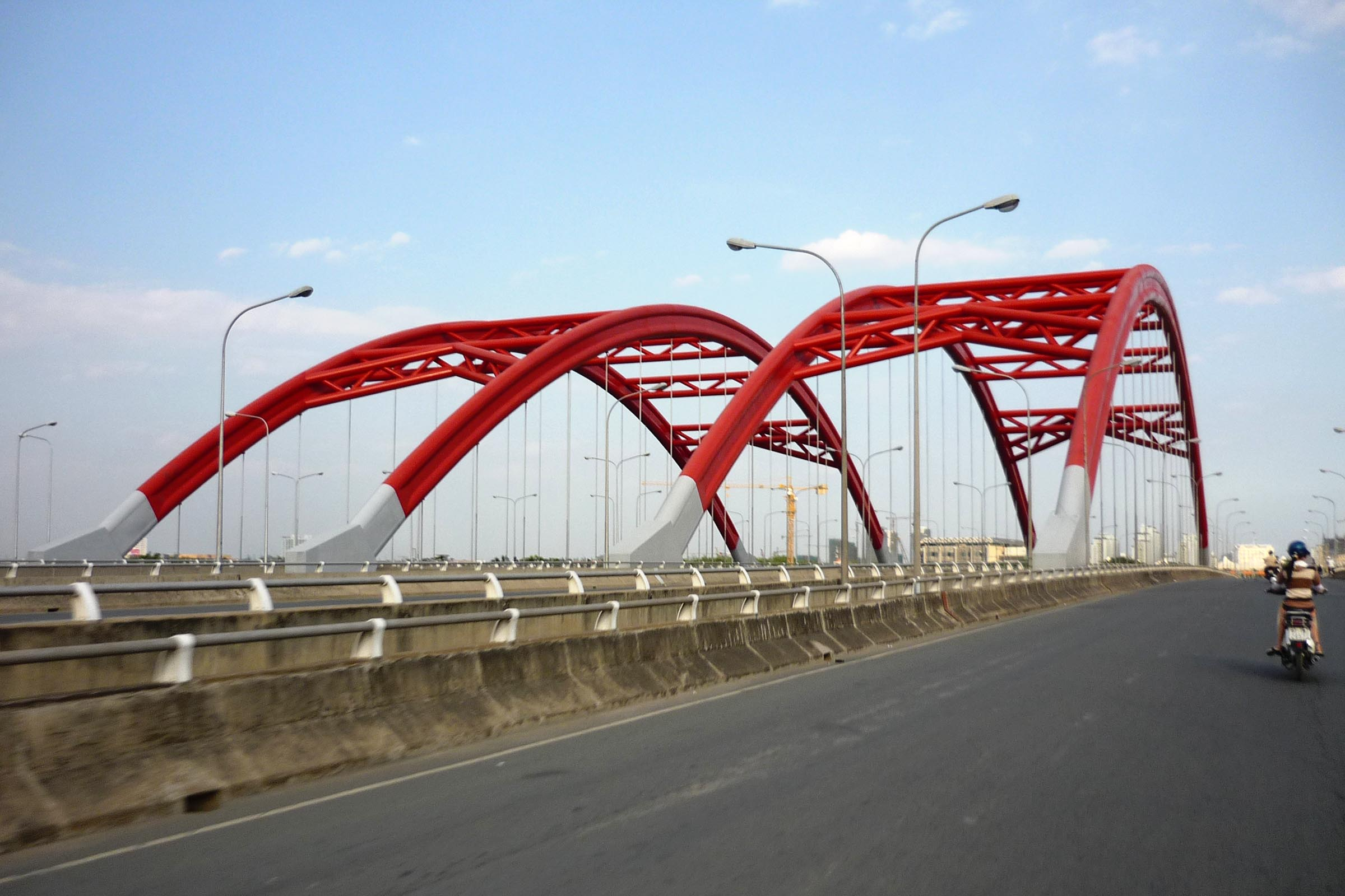 Ong Lon bridge in Ho Chi Minh City